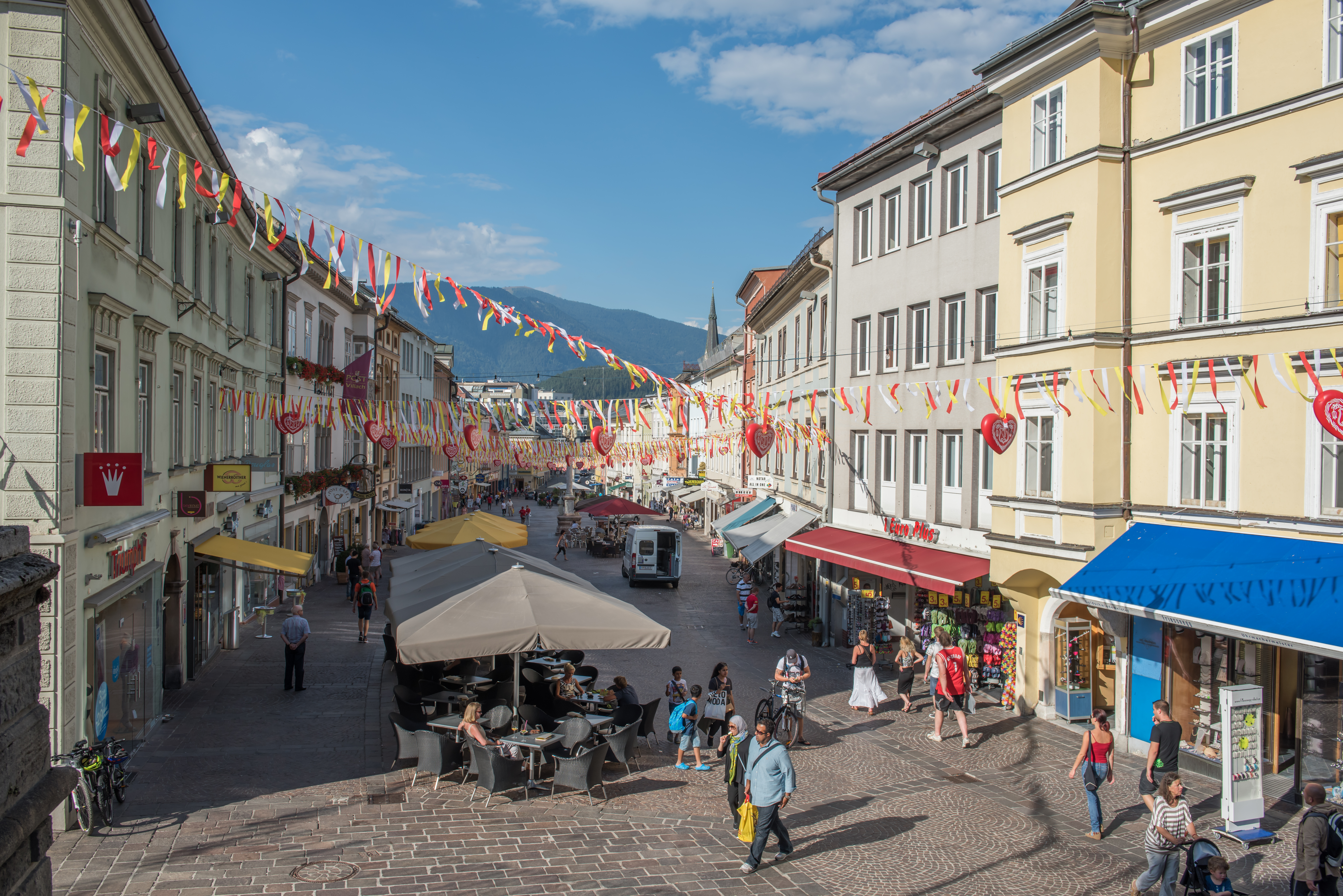 Southwestern view of Hauptplatz (main square), statutary city of Villach, Carinthia, Austria, EU